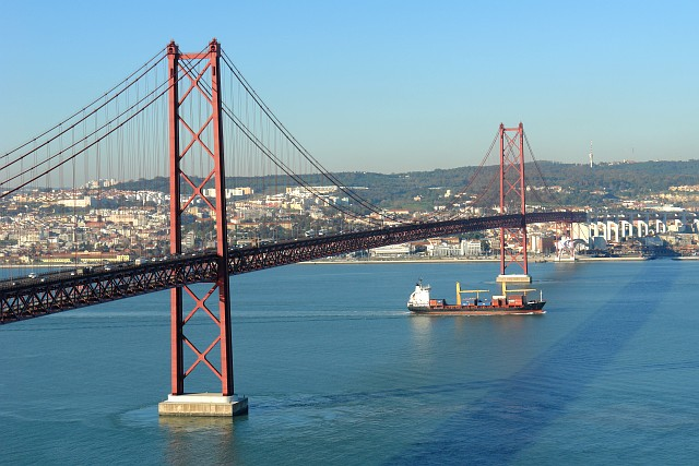 Ponte 25 de Abril. Photographer: Osvaldo Gago. Other version